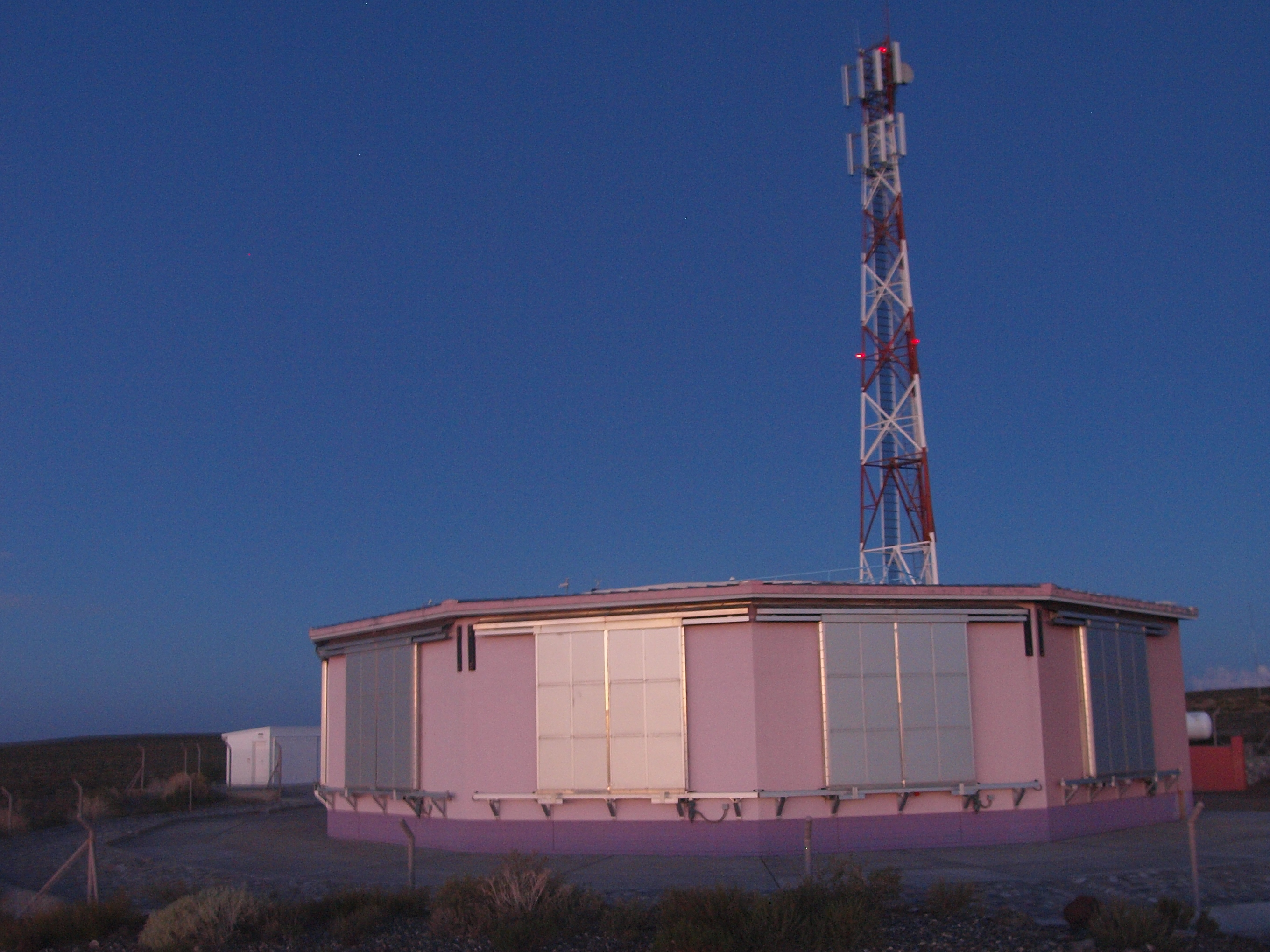 One of the four Fluorescence Detector site of the Pierre Auger Observatory